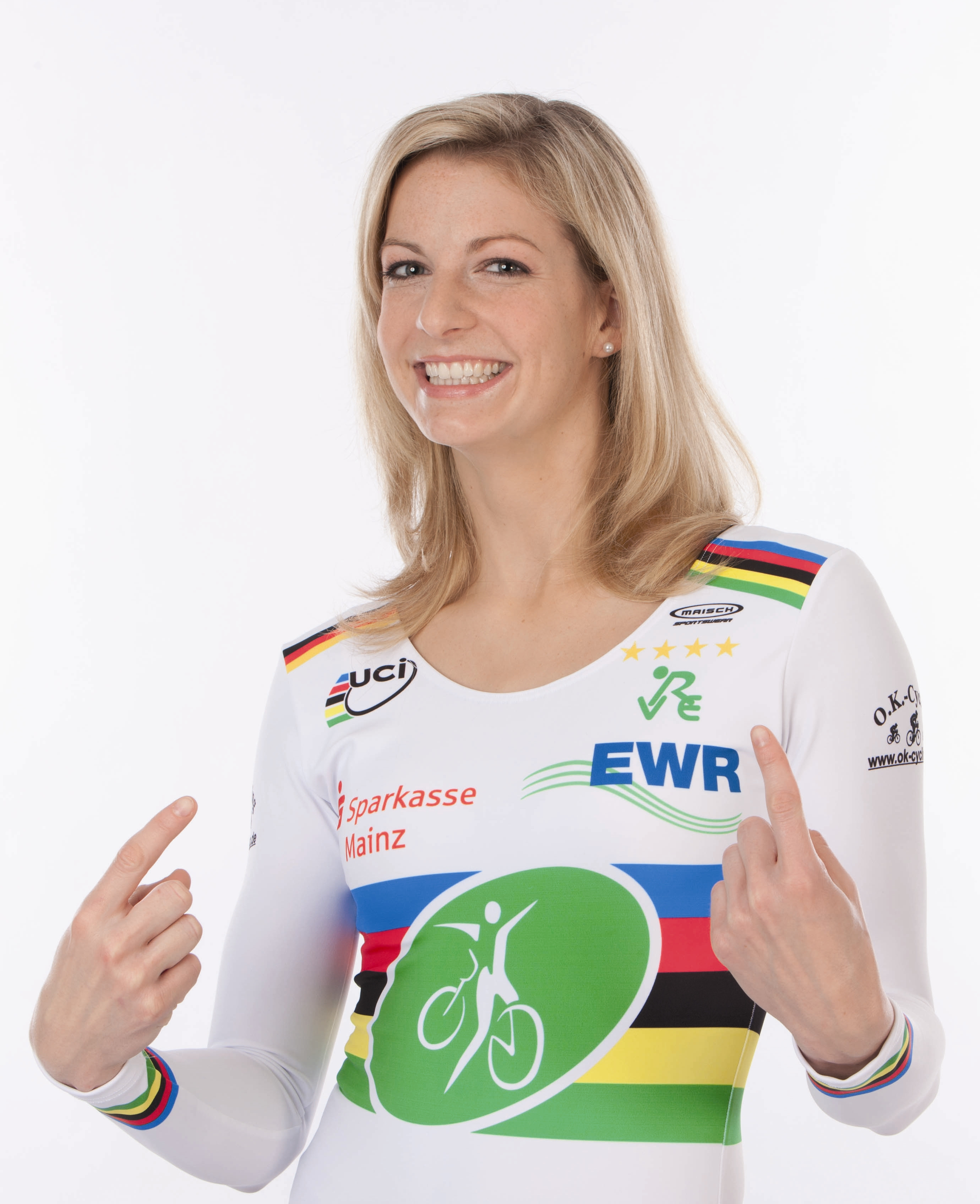 Katrin Schultheis, Women World Champion artistic-cycling, December 2011